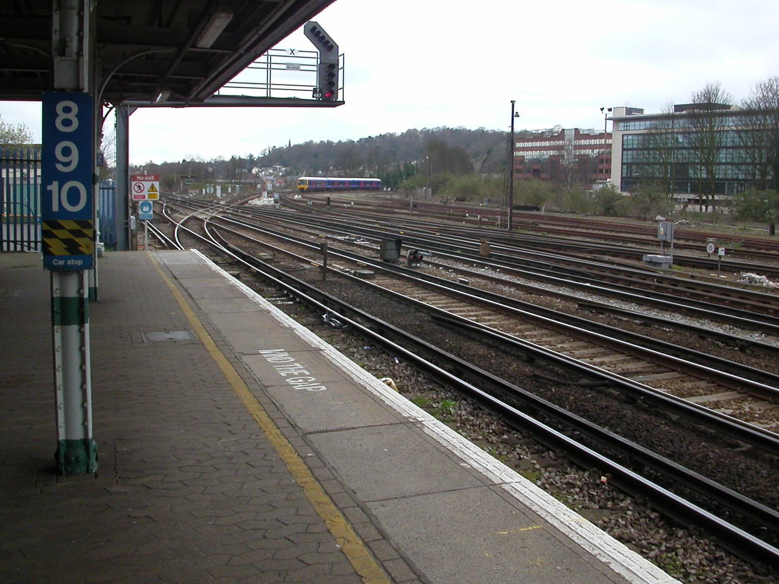 First Great Western unit 166204 arriving at Redhill with the 1104 Reading-Redhill service. Photographed on 17th March 2007.